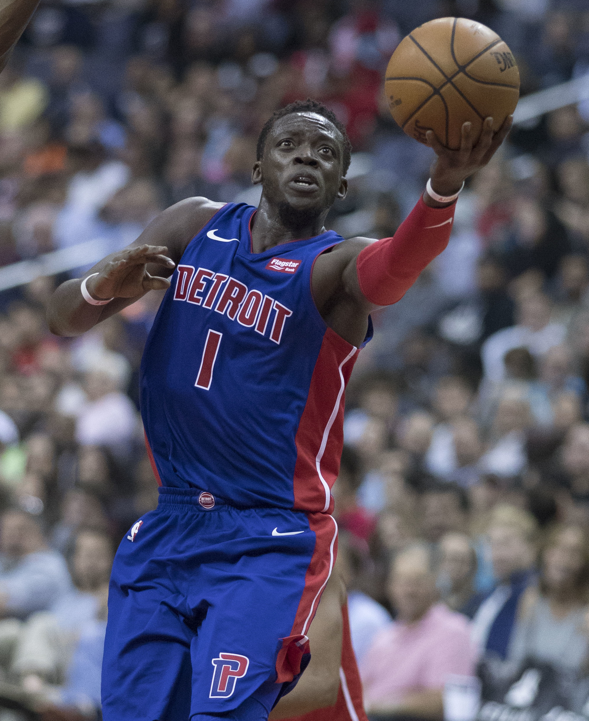 Pistons at Wizards 10/20/17